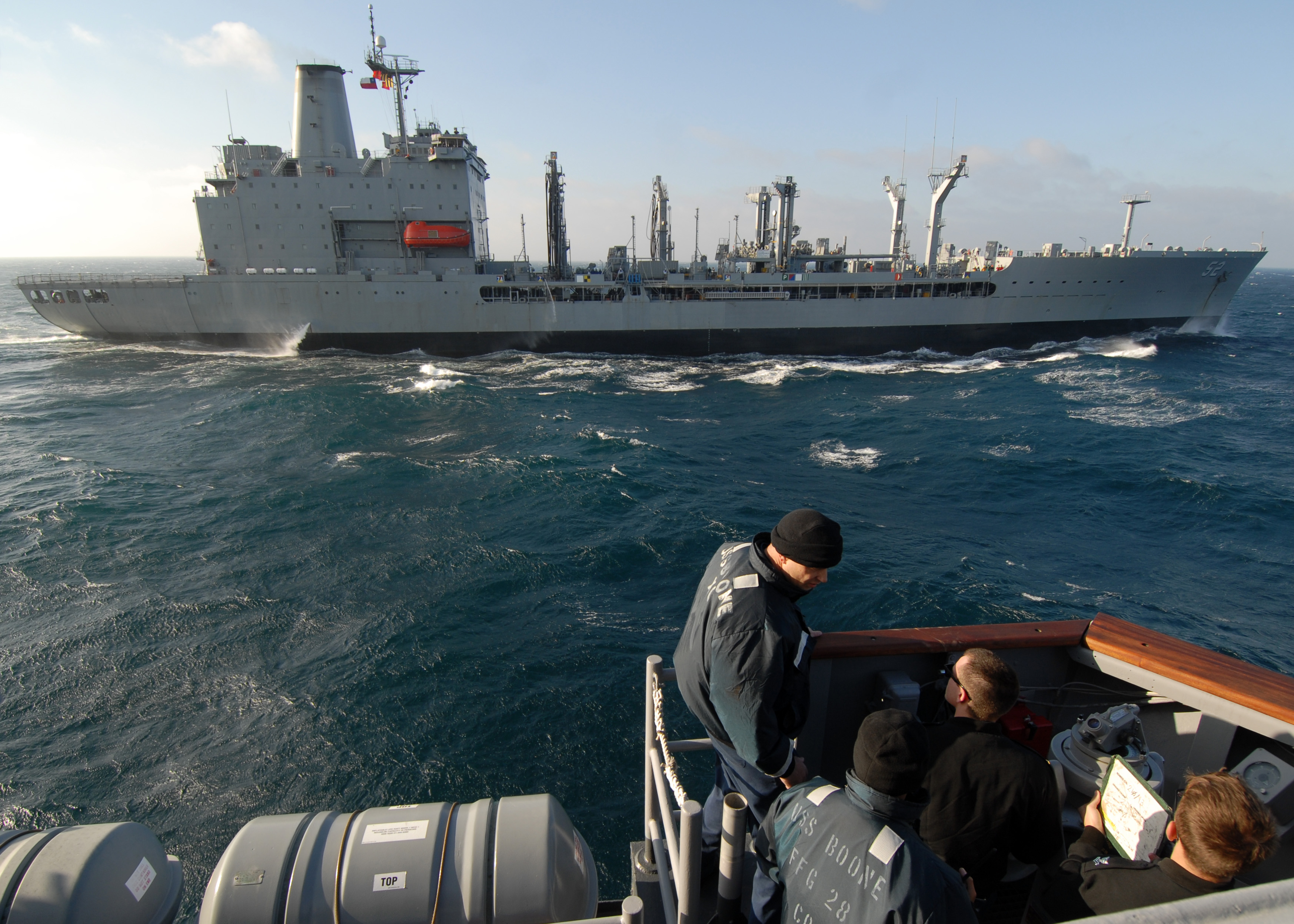 PACIFIC OCEAN (June 23, 2011) Lt. Cmdr. Robert Speight, executive officer of the guided-missile frigate USS Boone (FFG 28), passes orders as the Chilean navy oiler CNS Almirante Montt (AO 52) approaches for a replenishment at sea. Almirante Montt was previously USNS Andrew J. Higgins (T-AO 190). This is the first time Almirante Montt has conducted a replenishment with a foreign navy since she was acquired by the Chilean navy. Boone is deployed to South America supporting Southern Seas 2011. (U.S. Navy photo by Mass Communications Specialist 1st Class Steve Smith/Released)